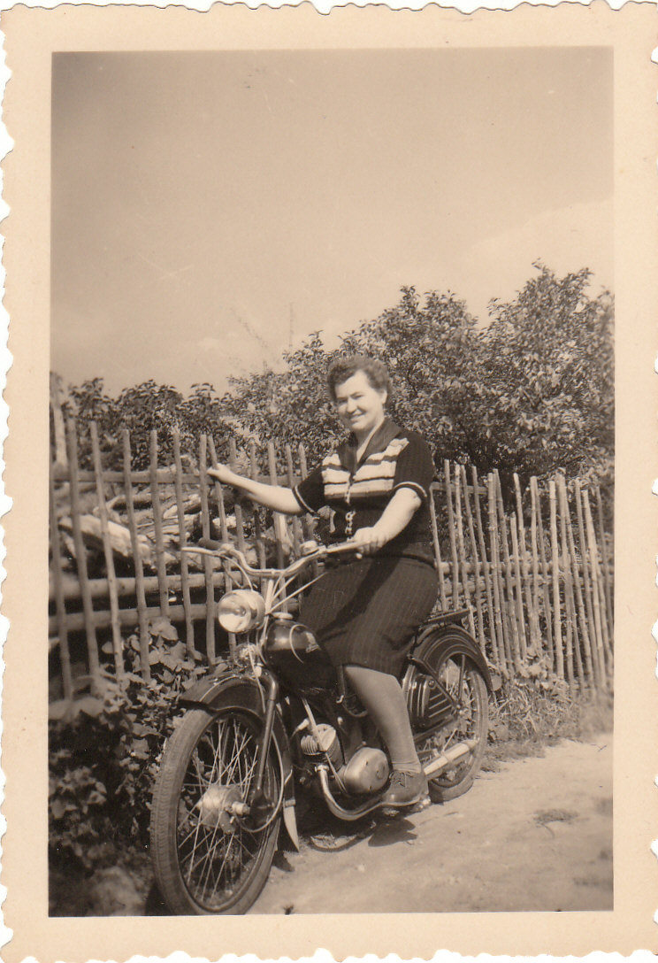 Simon moped SR2 with woman